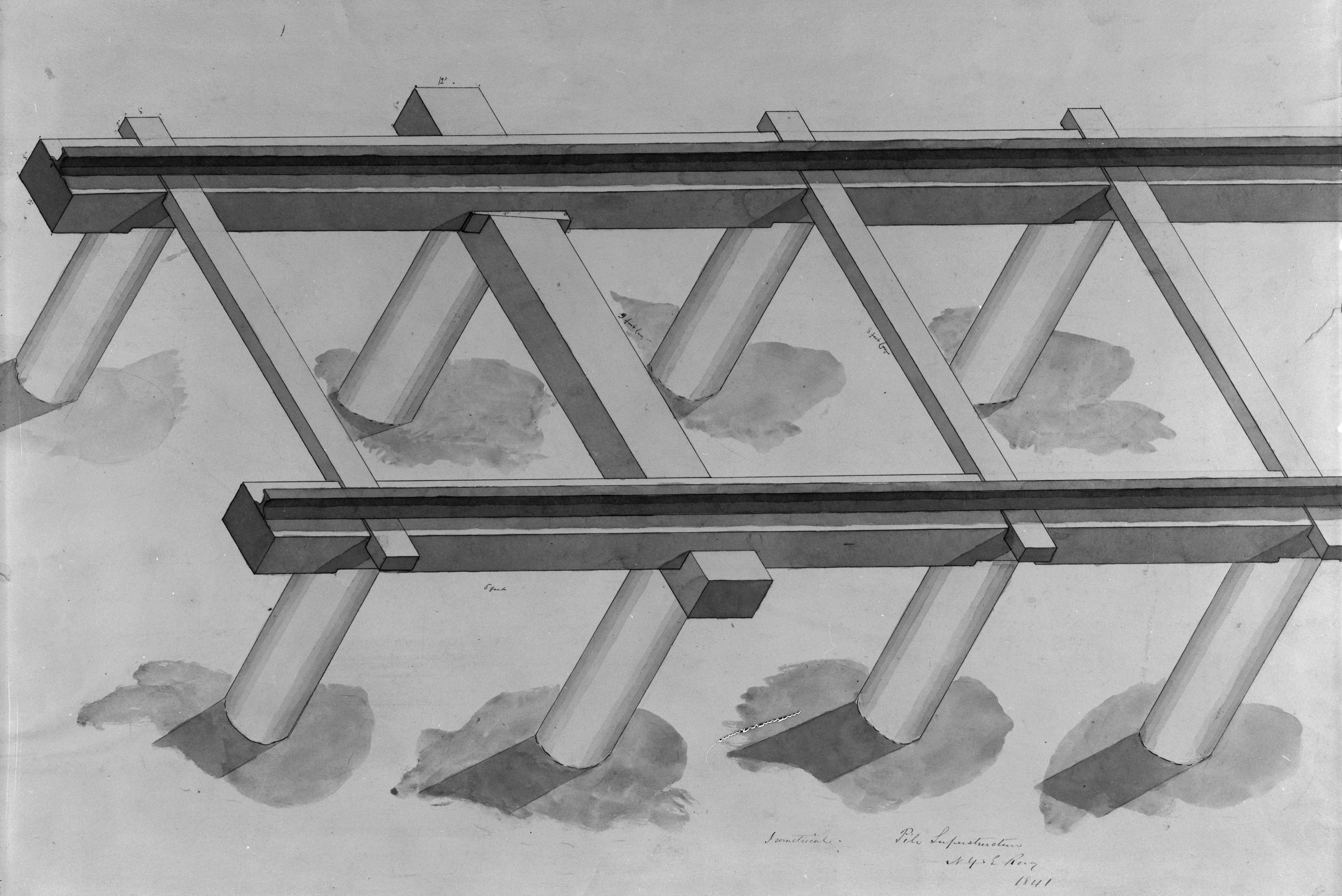 Drawing of New York & Erie Railroads broadgauge track that was originally planned to be built on piles rather than regular trackbed